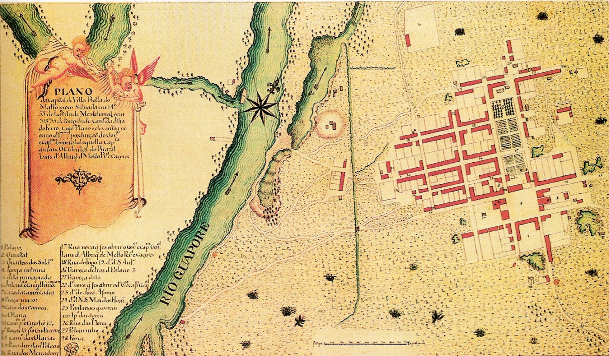 Plan of the capital of Vila Bela do Mato Grosso, nowadays Vila Bela da Santíssima Trindade, Mato Grosso, Brazil.